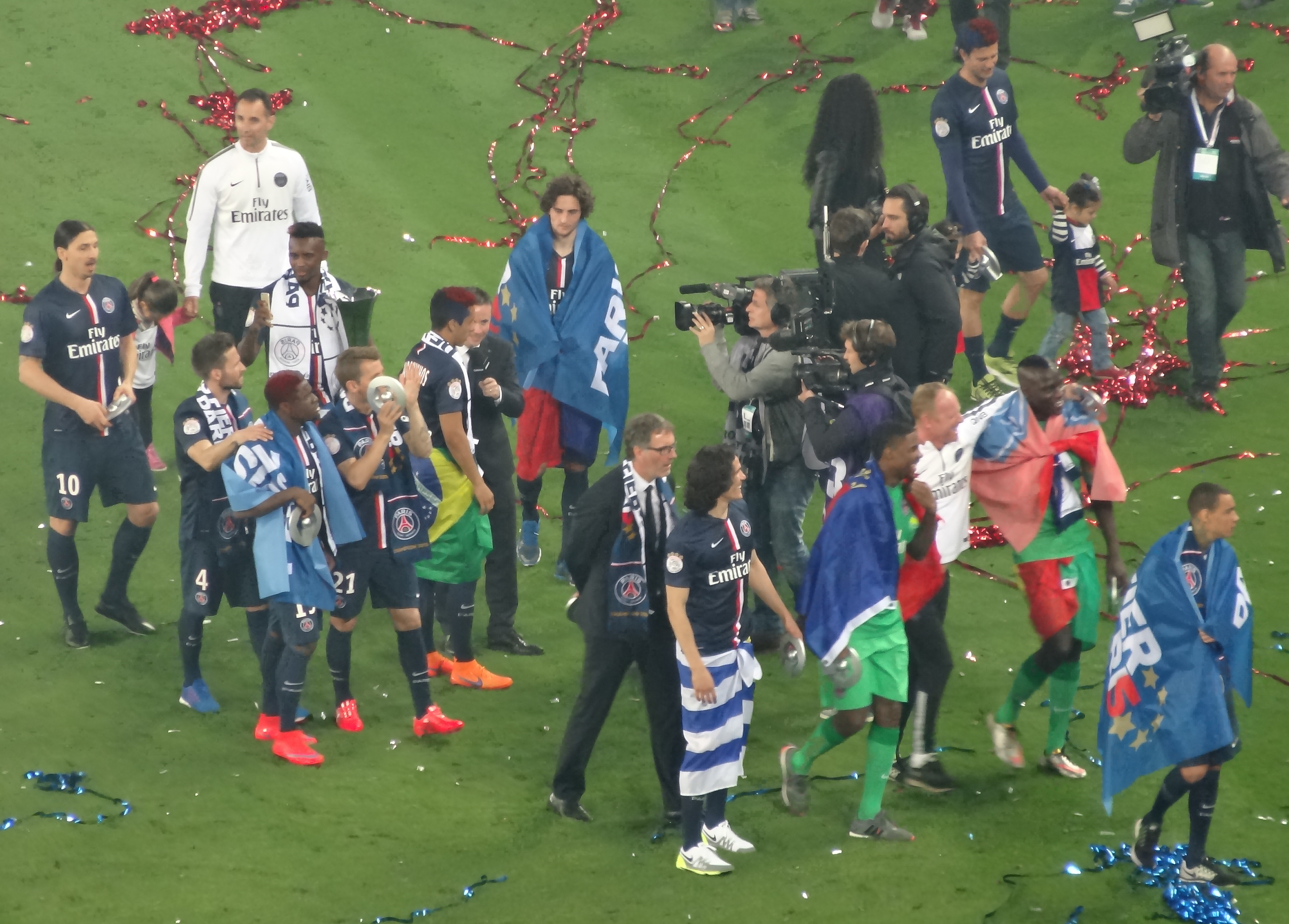 PSG champion 2015